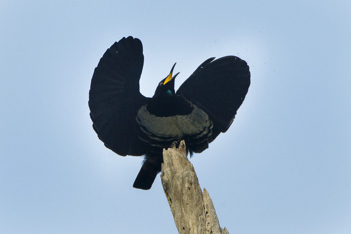 Victoria's Riflebird displaying - Lake Eacham - Queensland_S4E8834